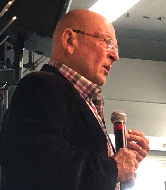 Russell White Brothers on May 24, 2018